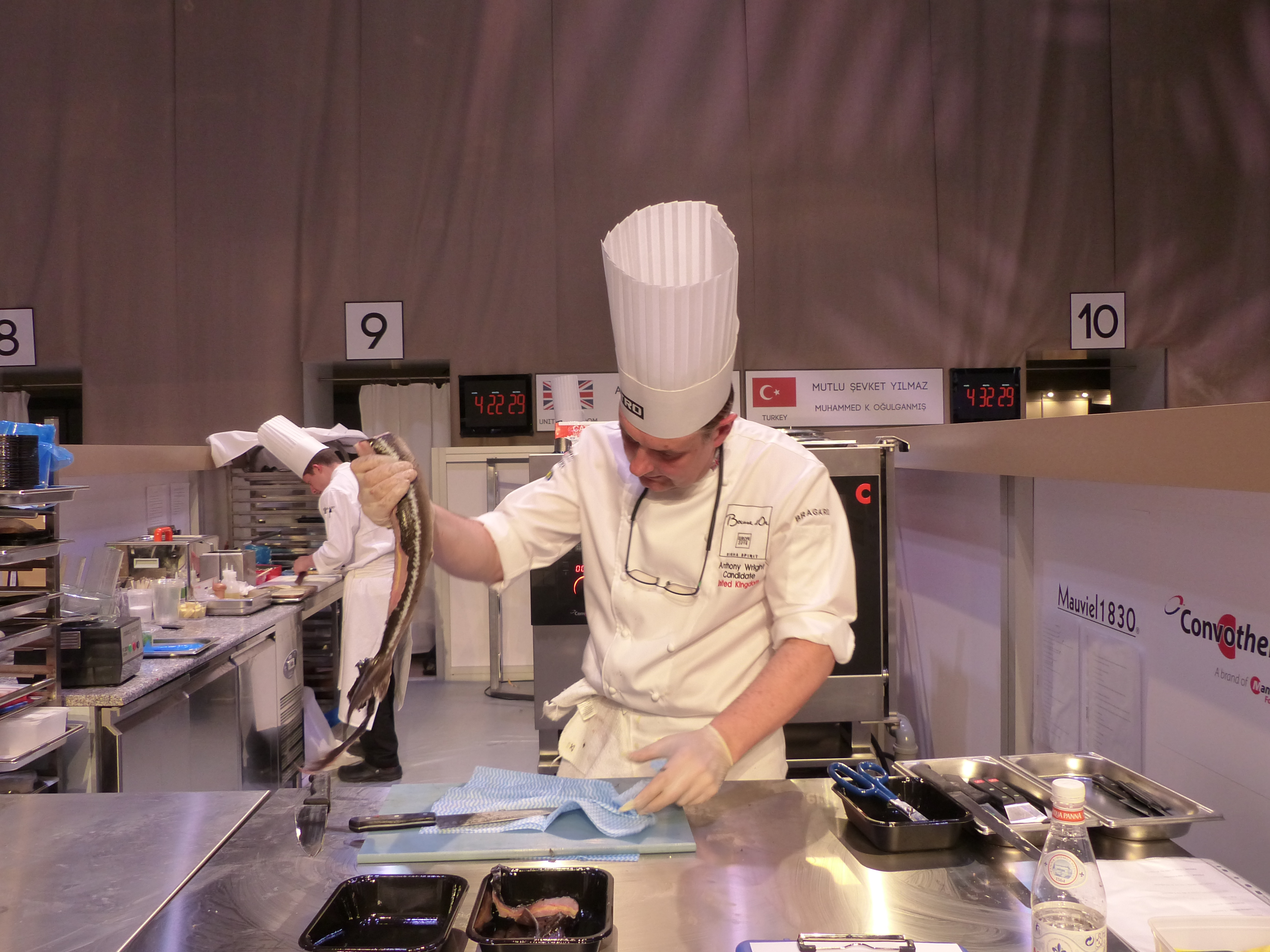 Anthony Wright chef netting the sturgeon. Bocuse d'Or – Selection Europe - Budapest 2016. Taken on the 10th of May, 2016. Hungexpo, Budapest, Hungary. Bocuse d'Or – Selection Europe – Budapest. Sources